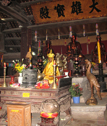 Thay Pagoda, Hanoi, Vietnam